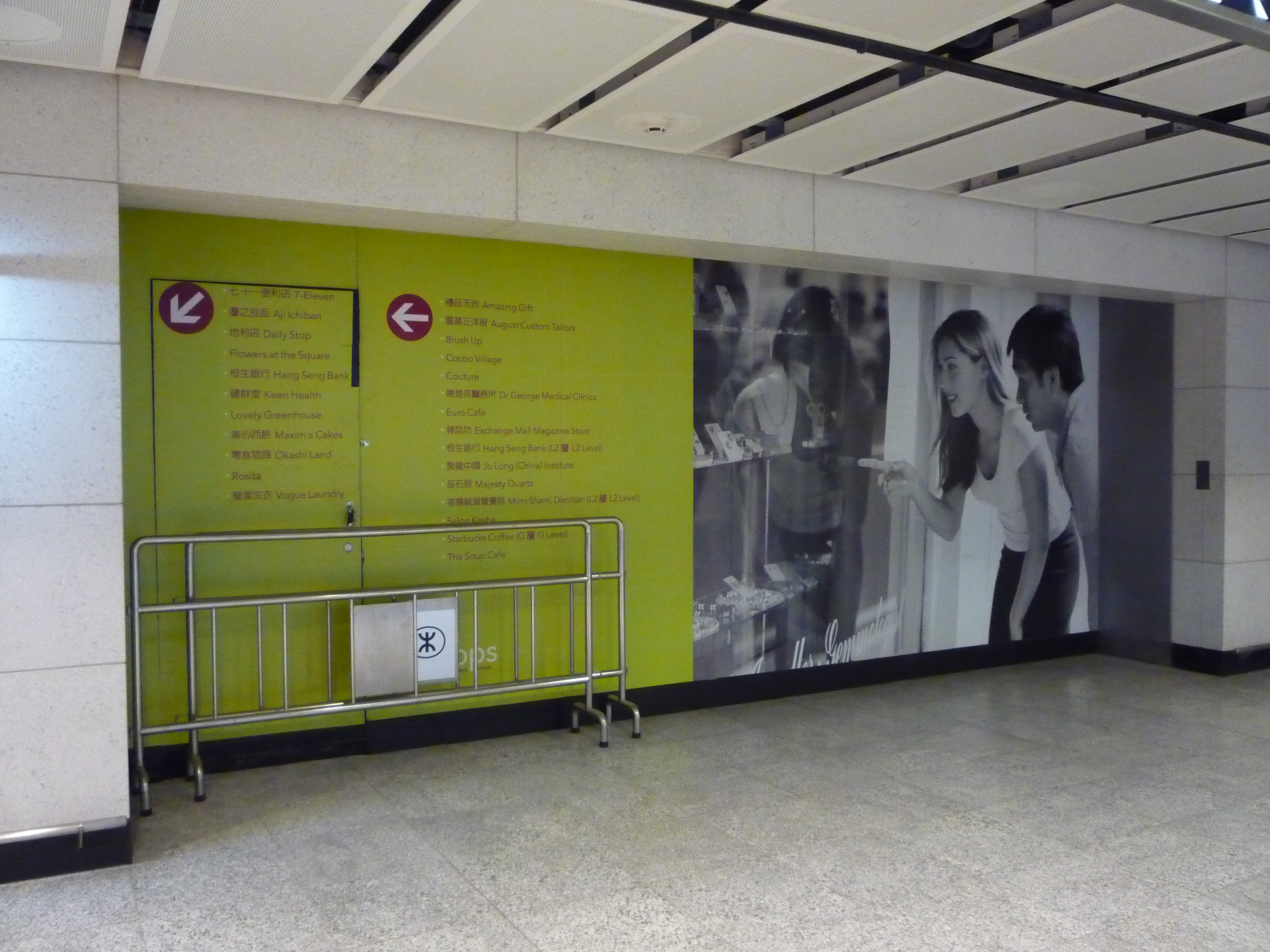 A reserved place for escalators to reserved Airport Express concourse and platform in MTR Hong Kong Station